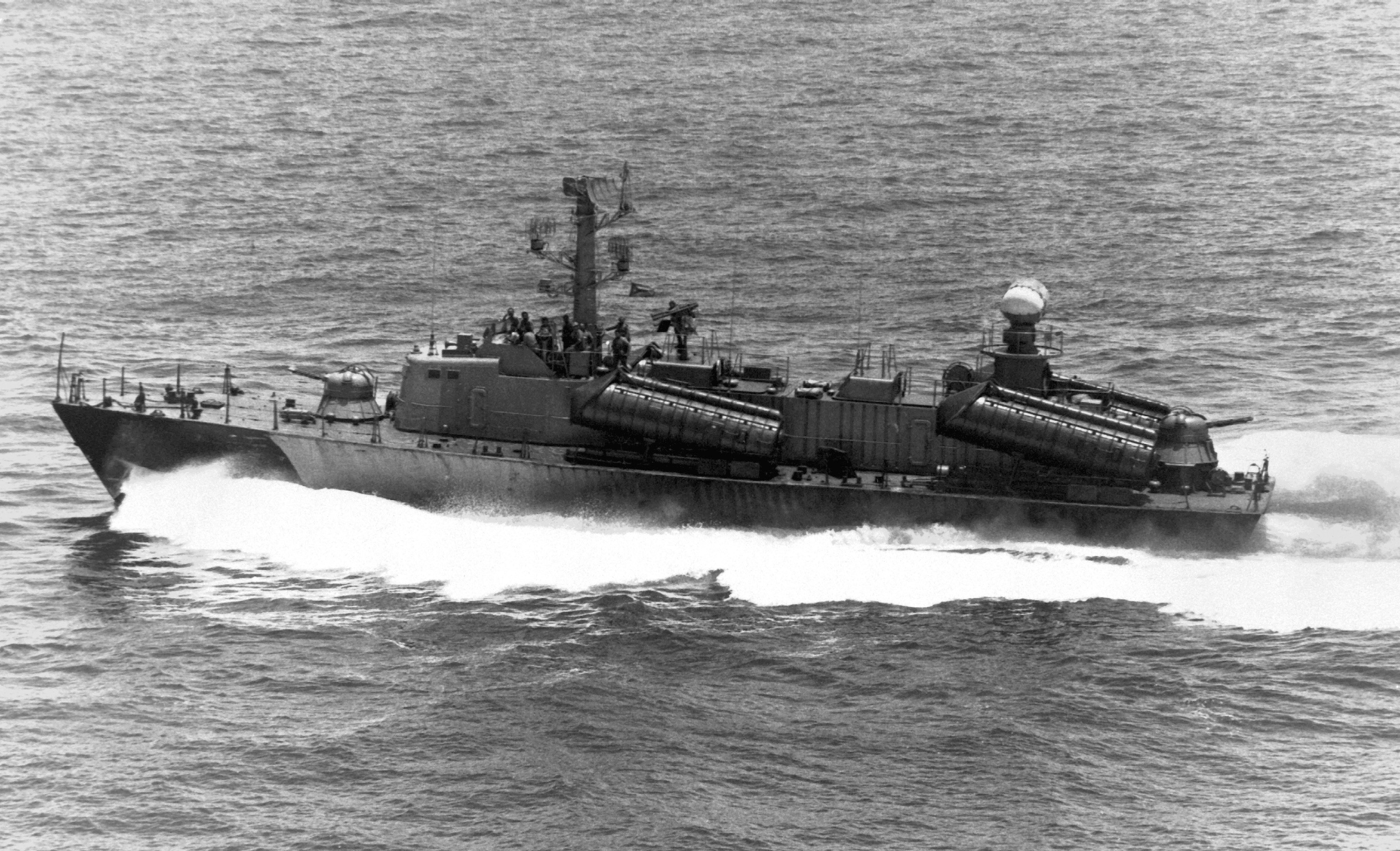 A port beam view of a Soviet built project 205-ER (NATO code Osa II class) Cuban small guided missile motorboat (PTG) underway.